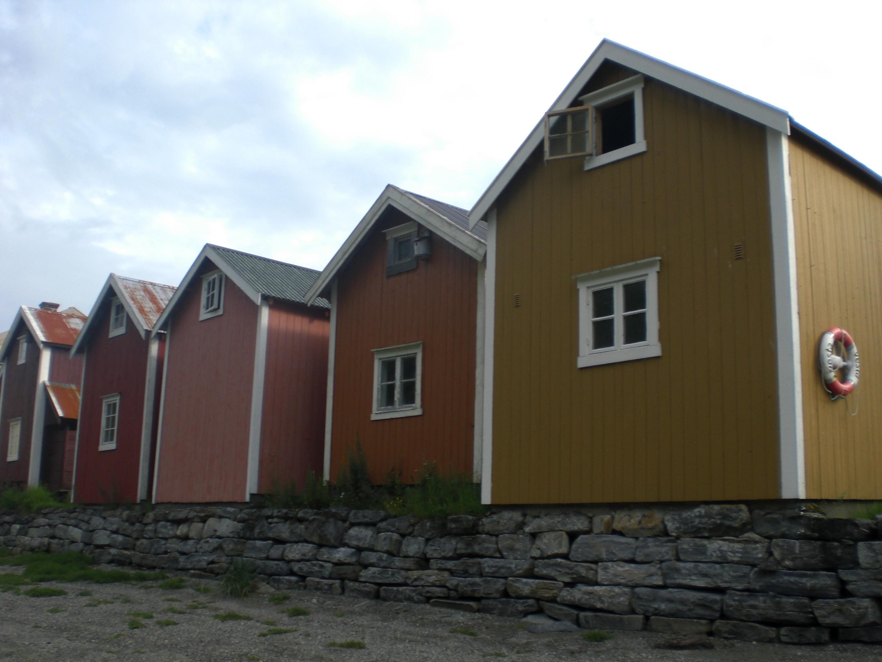 Sjøgata, Byflata in Mosjøen, Norway. Row of old boat houses by the riverside.